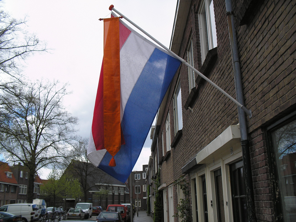 A Dutch flag displayed on Koninginnedag ('Queen's Day'/April 30) with traditional orange banner (or "wimpel") representing the House of Orange, the Dutch Royal Family. Taken on Cornelis Mertensstraat in the Zuilen neighborhood of Utrecht.